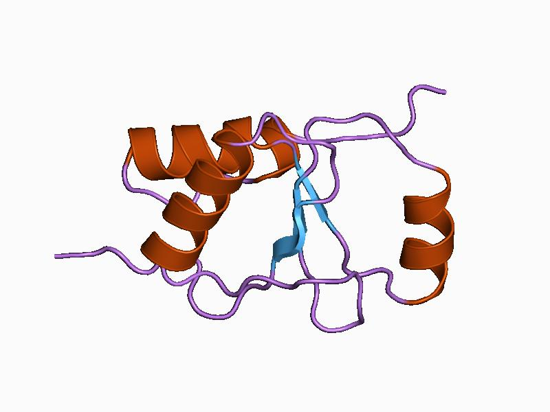 Cartoon representation of the molecular structure of protein registered with 1cdz code.